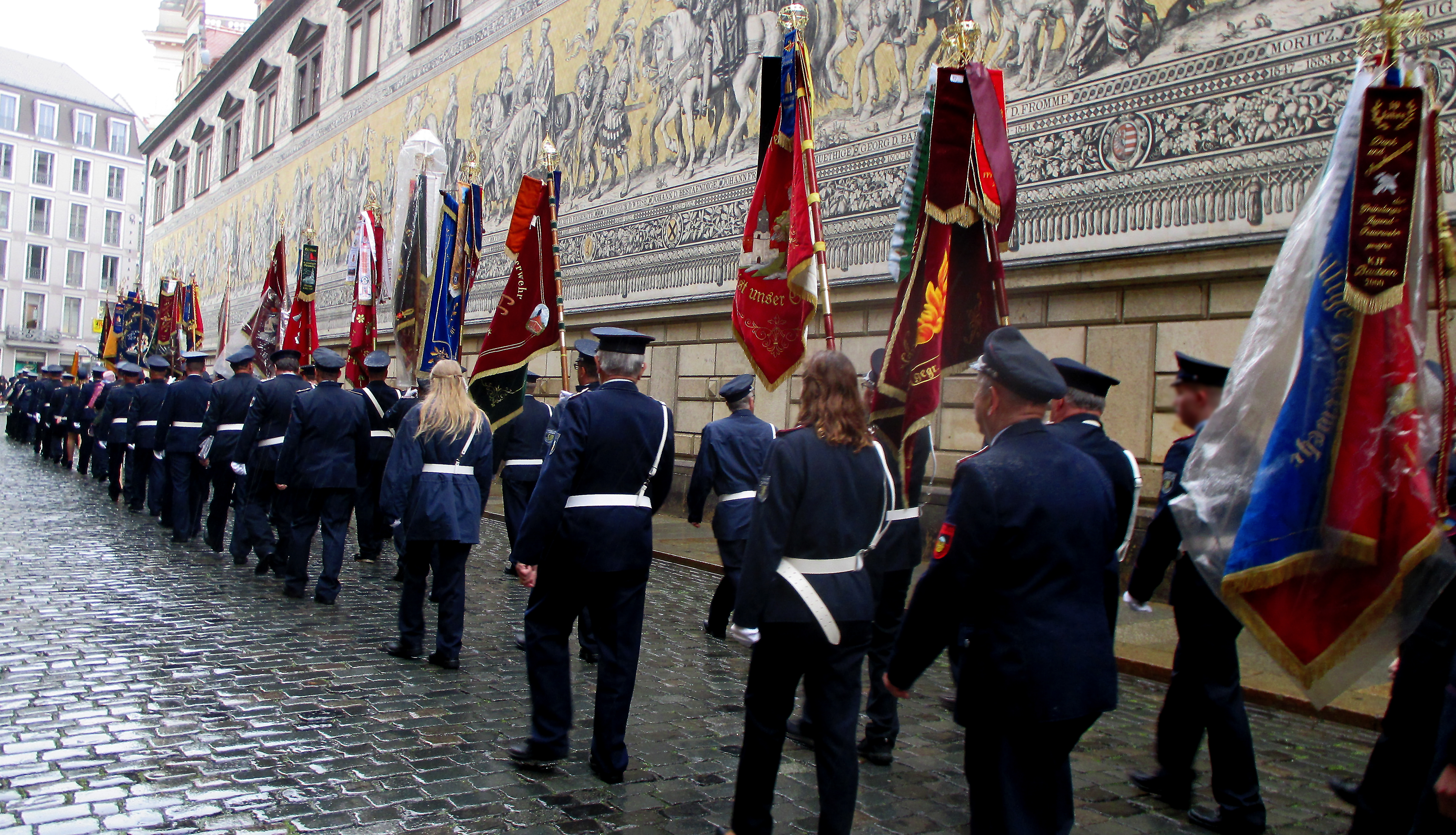 7. Internationaler Florianstag (Dresden) - Öffentlicher Festumzug der Feuerwehr Dresden - Altmarkt bis Neumarkt - Samstag 4. Mai 2019 - Bild 004